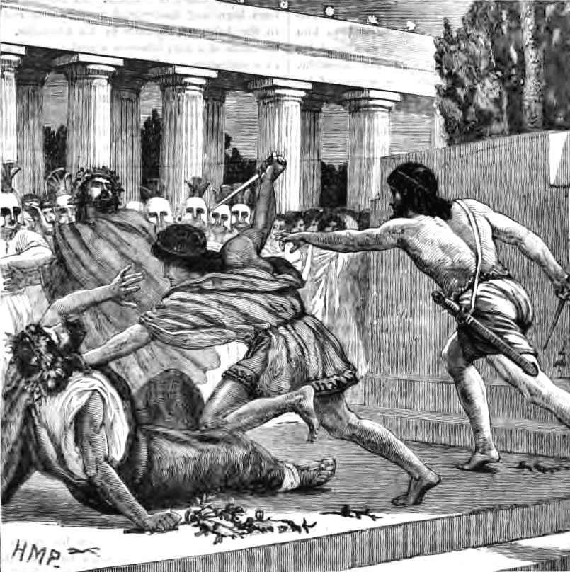 Slaughter of Hipparchus